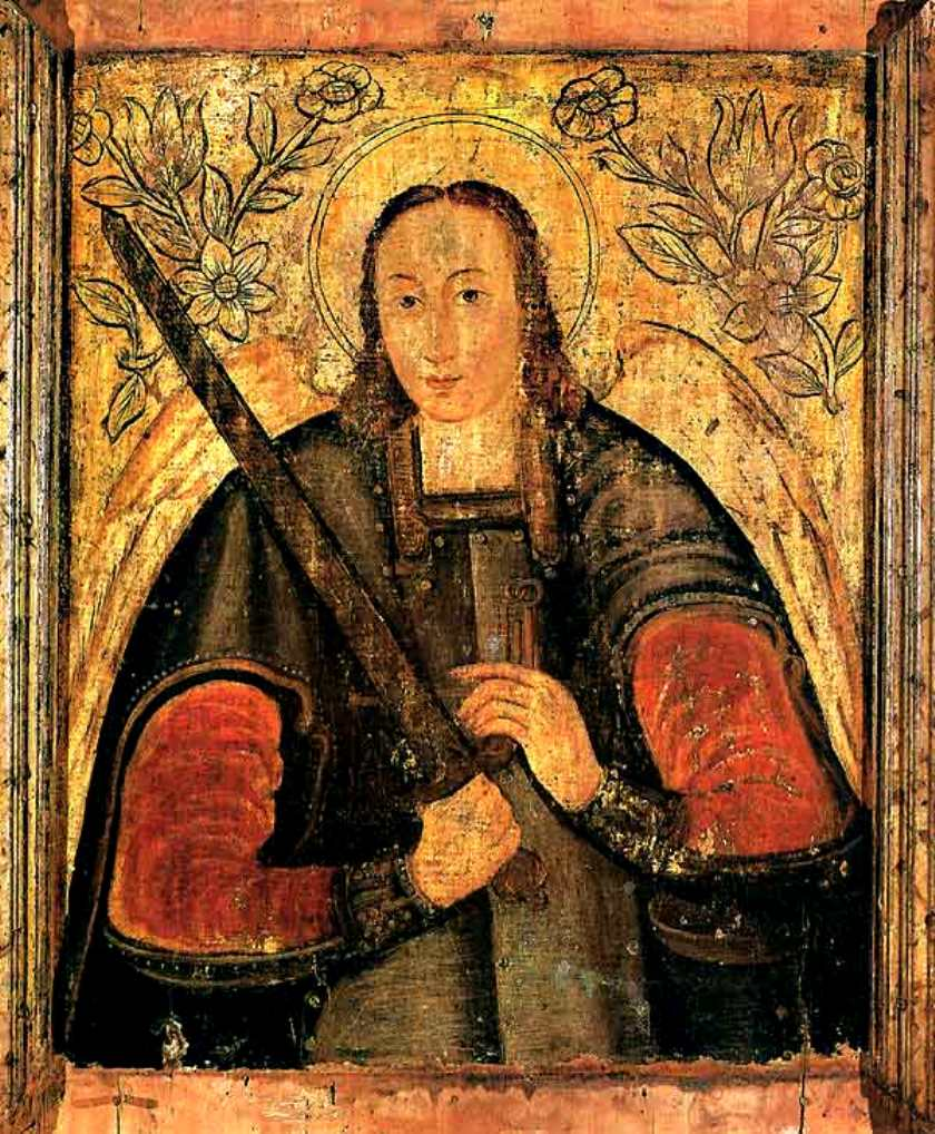 The Archistrategus Michael. Mid -18th c.